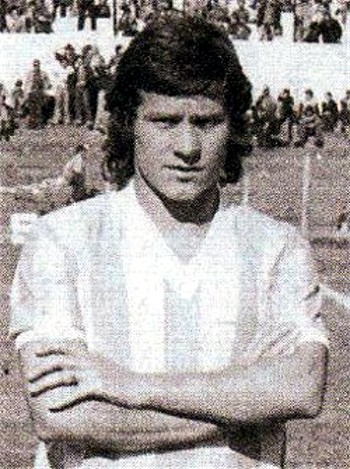 Squeo while at Racing Club 1974-1979